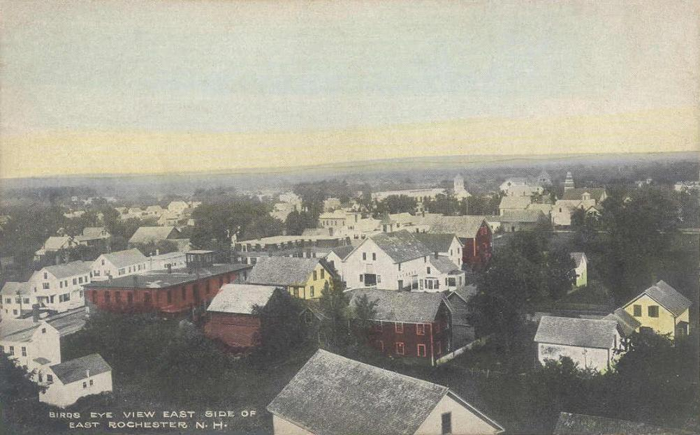 Bird's-eye view: east side of East Rochester, New Hampshire